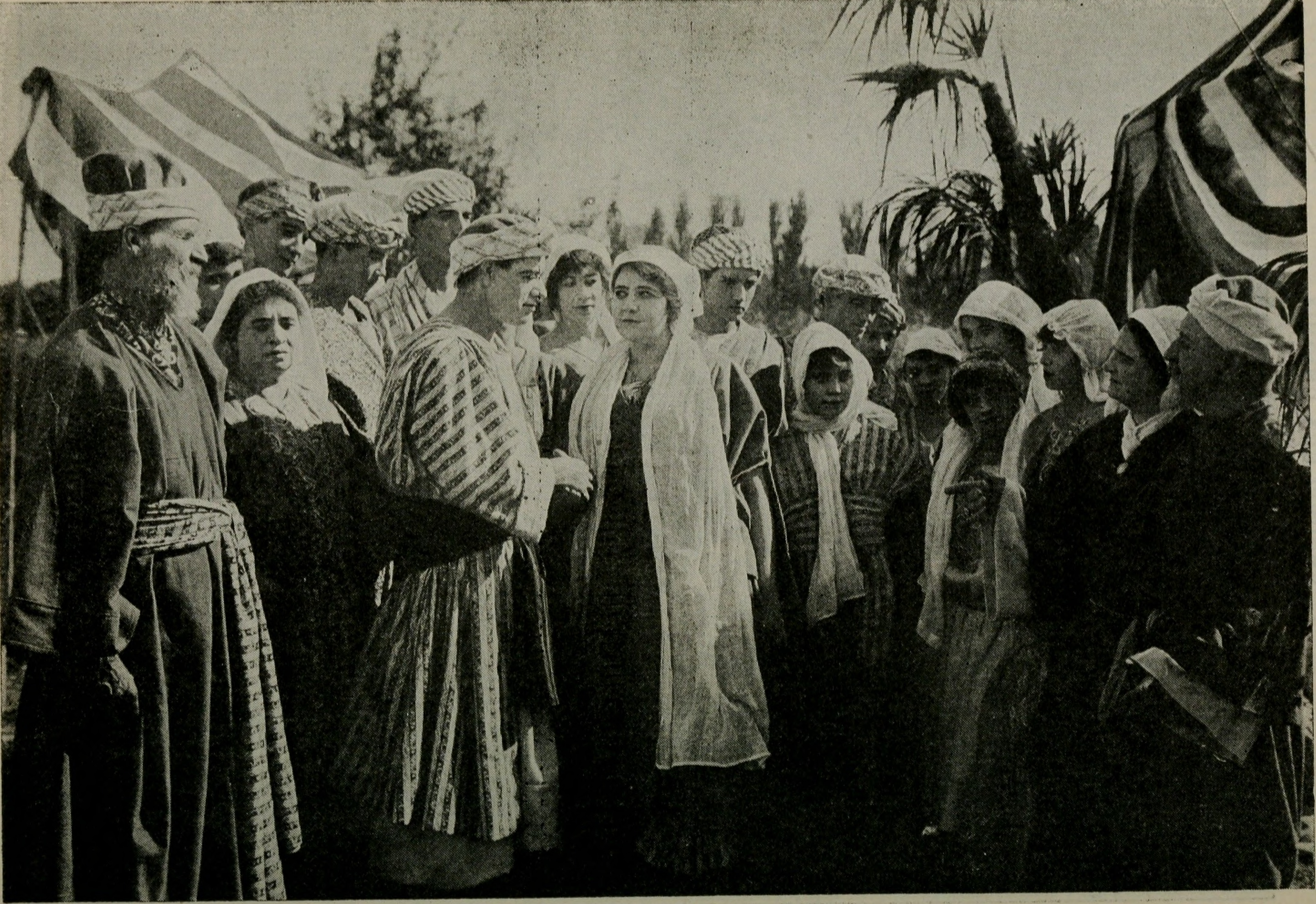 Title: The story of the Book of Mormon Year: 1888 (1880s) Authors: Reynolds, George, 1842-1909 Subjects: Publisher: Independence, Mo.: Zion's Printing and Publishing Co. Text Appearing Before Image: Lehi's four sons married one of her sisters. We are not told whether Lehi's daughters were married at this time or not. Soon after these marriages the voice of the Lord spake unto Lehi by night and commanded him that on the morrow he should resume his journey. When Lehi arose the next morning and went to the door of his tent he saw a strange object lying on the ground before him. It was a brass ball of very fine workmanship. Within this ball were two spindles or needles, one of which pointed the way that the little company should travel in the wilderness. God had prepared this strange instrument or guide for them. In the days of Moses, when he led the children of Israel out of Egypt, a pillar of cloud by day and of fire by night moved in front of them. This the Hebrews followed.But to Lehi he gave this Liahona, or compass, as the ball was called; and it pointed the way they should travel.It had one strange peculiarity, which was that it worked according to their faith and diligence. When they kept Text Appearing After Image: '